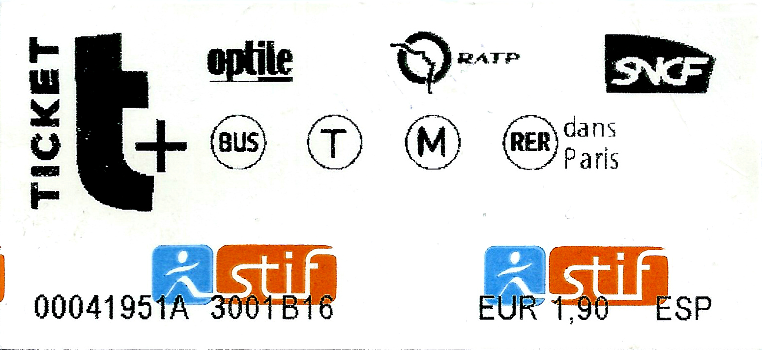 Ticket t+ stif Paris 2017